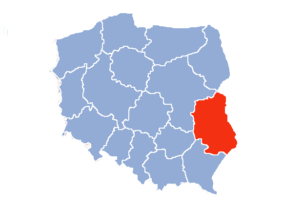 Locator map for - Lublin Voivodship Copyright notice: Image made by Halibutt and uploaded to Wikipedia by the author. Images can be made available for use under other copyleft licenses on a case by case basis via direct contact with the author. Under moral rights the user requires that this work be properly attributed to its creator. For photographs, this is traditionally done in the image caption. Where a copyright notice is present, using the copyright notice in the caption will be sufficient. Note that the GFDL requires that any copyright notices be included with the work even when making unmodified use of it. Since the legal status of the above comment has been questioned, I hereby grant anyone the right to treat it as either a standard copyright notice, invariant section, legal statement, legal advice, friendly suggestion or a mere comment, depending on his or hers own choice.